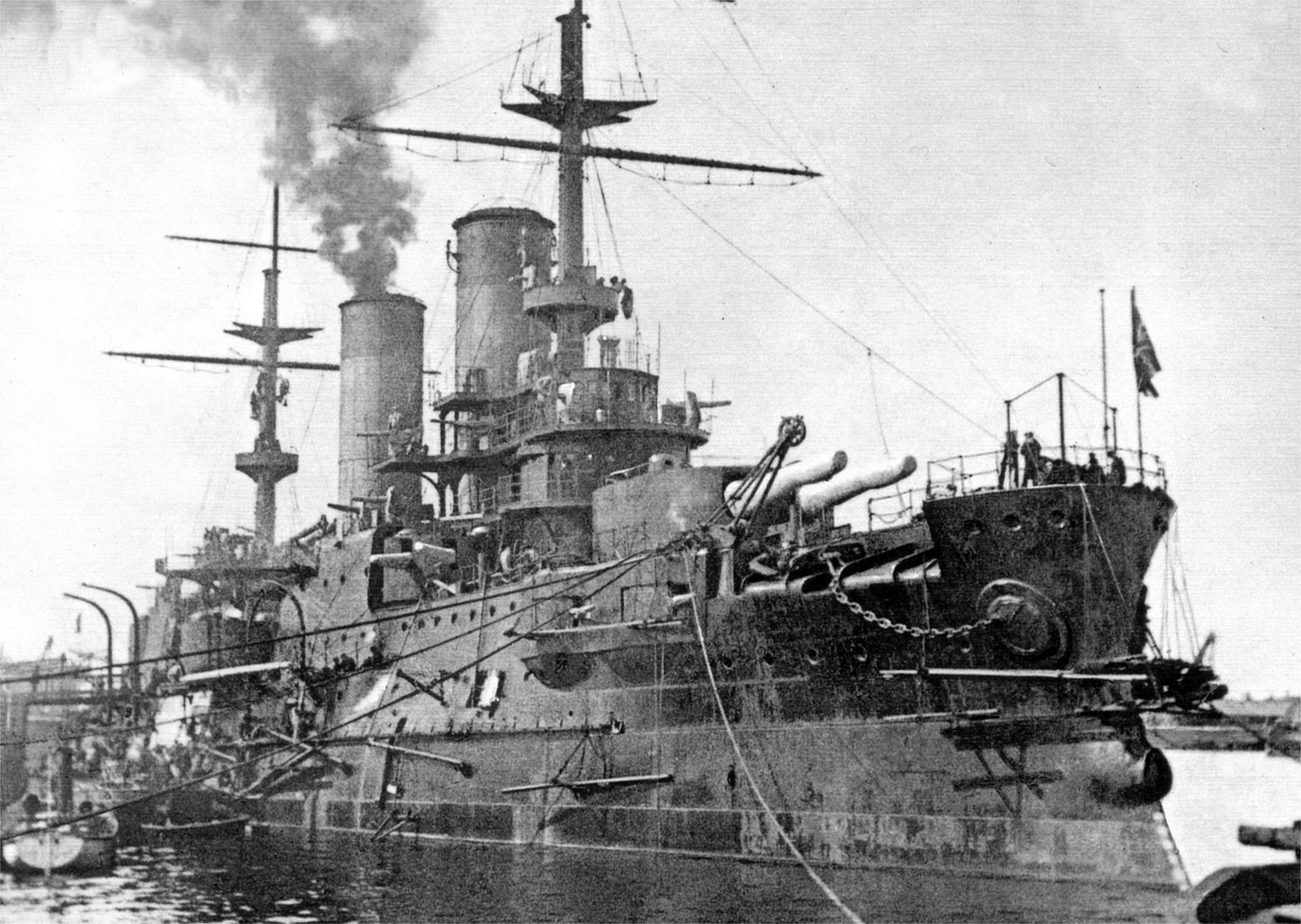 Imperial Russian battleship Borodino at Kronshtadt, 1904.